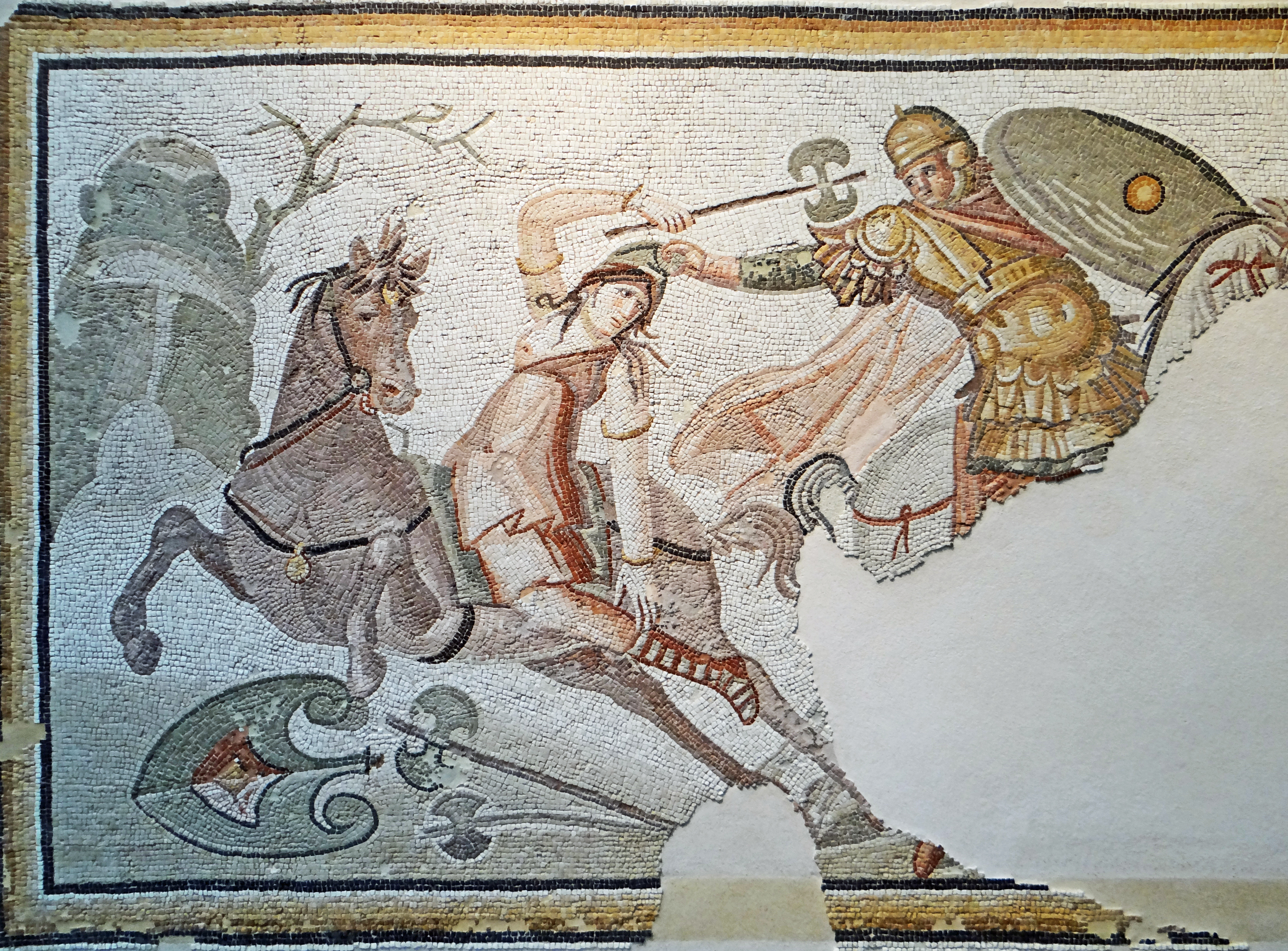 Ancient Roman mosaic: Amazon warrior armed with a labrys, engaged in combat with a hippeus, is seized by her Phrygian cap; 4th century AD. From Daphne, a suburb of Antioch on the Orontes (modern Antakya in southern Turkey). Installed in the Denon Wing of the Louvre.